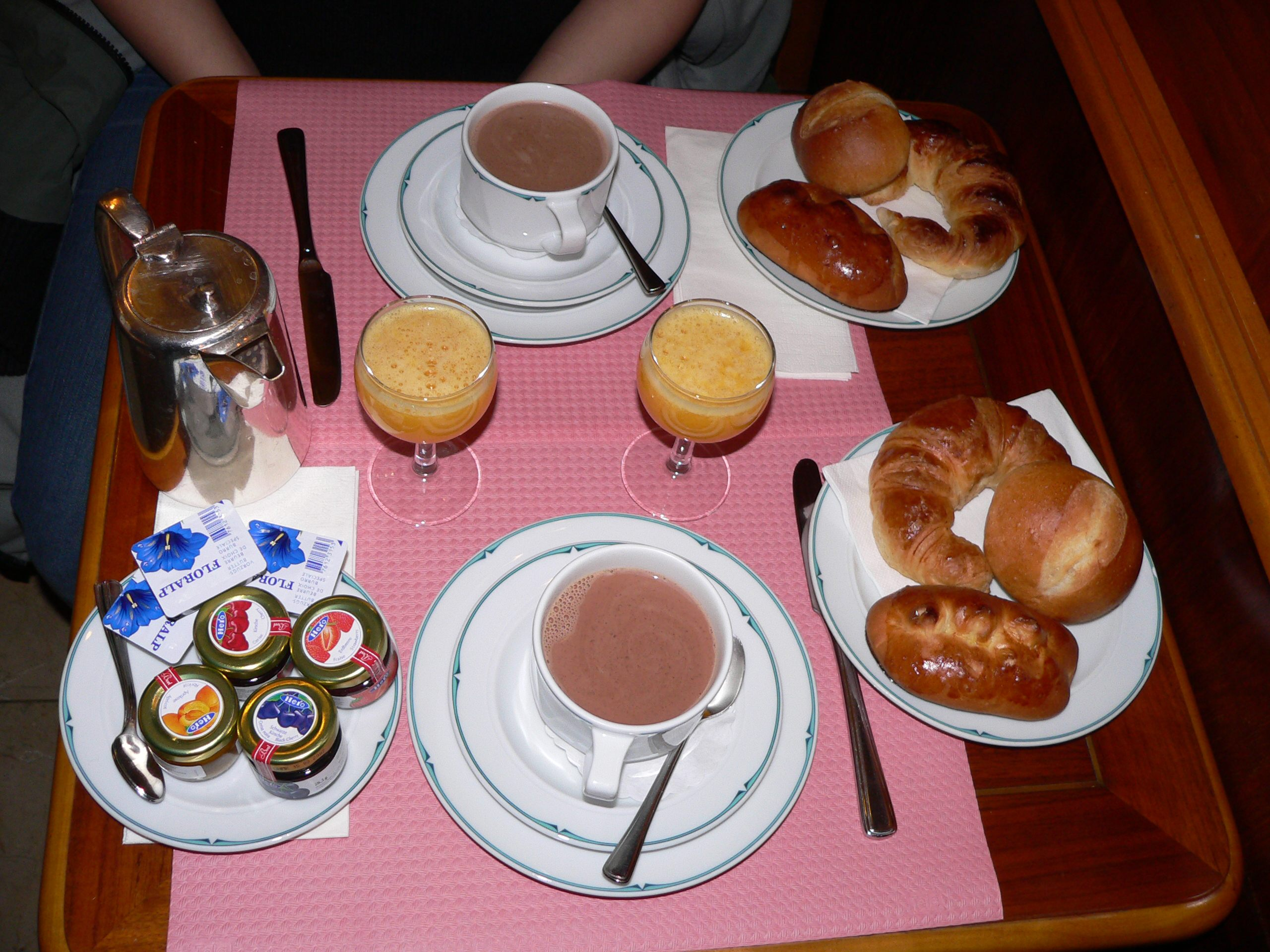 A continental breakfast served in Switzerland, with croissants and orange juice